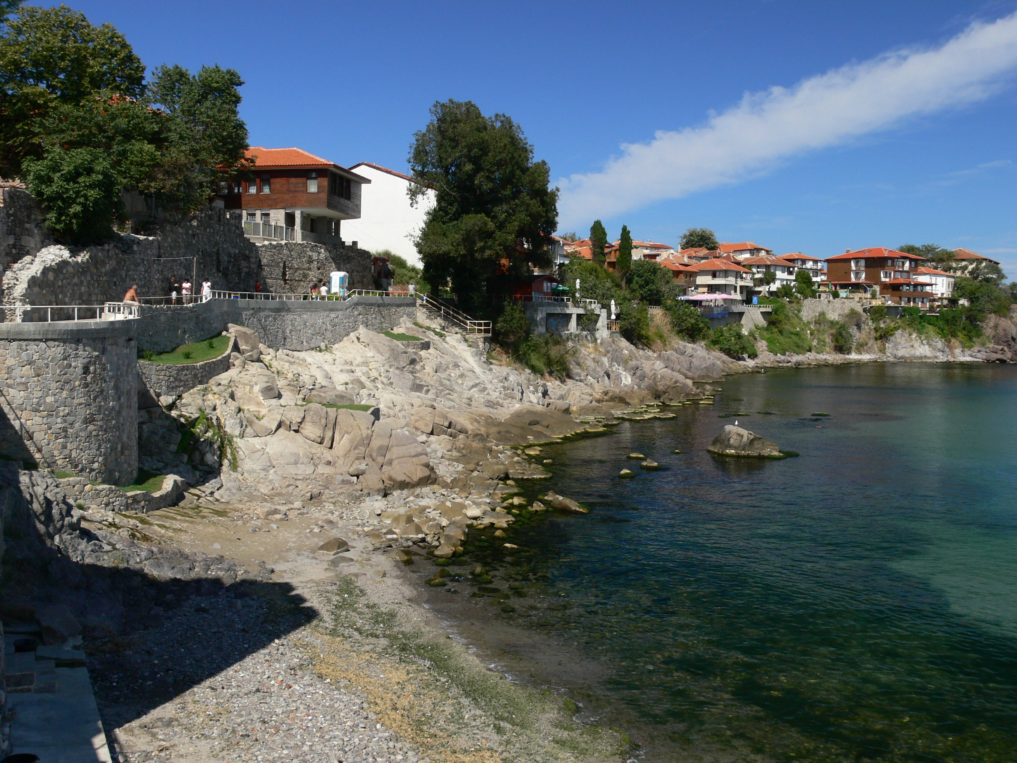 Part of Bulgarian city Sozopol, built when city was called Apollonia (6th century BC).